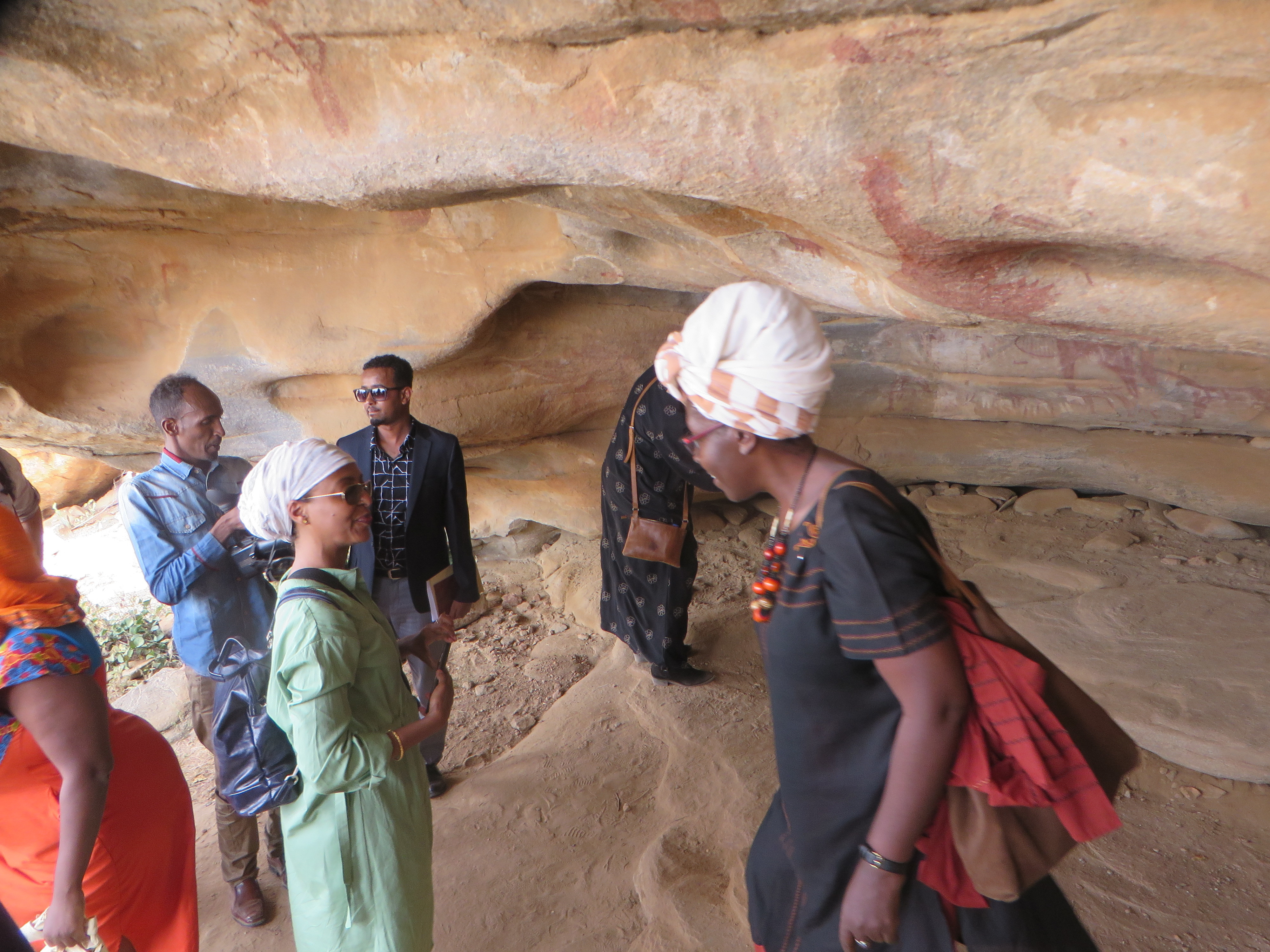 Visitors of the Hargeysa 12th International Book Fair 20-25 July 2019 in the caves with rock paintings of Laas Geel.